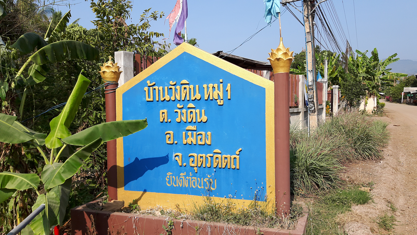 Ban Wang Din